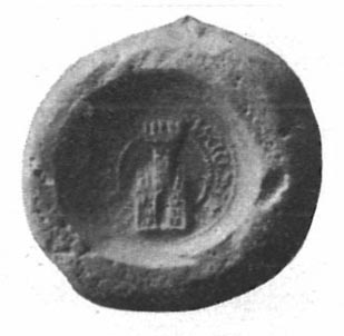 Seal of knez Pavle Radenović, dated 25 March 1397.